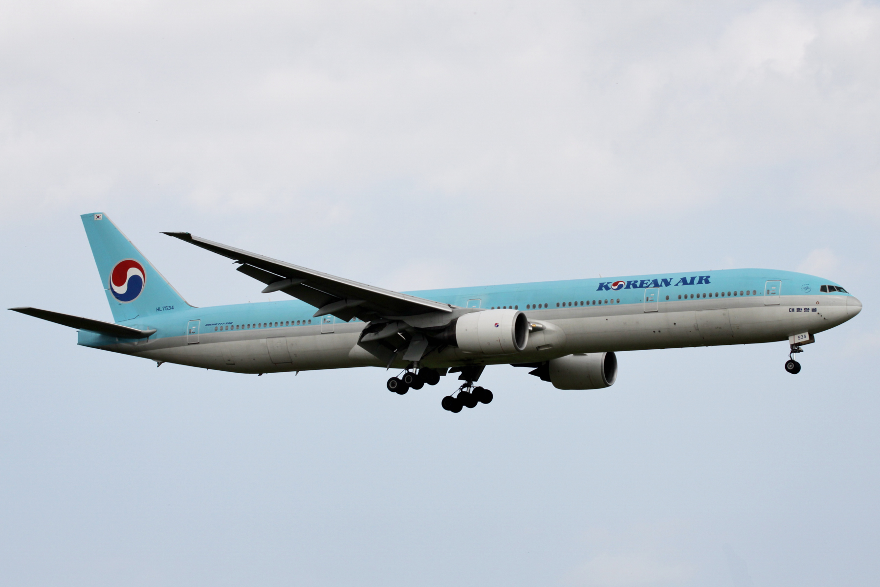 Narita International Airport, Boeing 777-3B5, c/n:27950 Korean Air